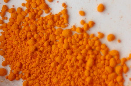 HgO powder